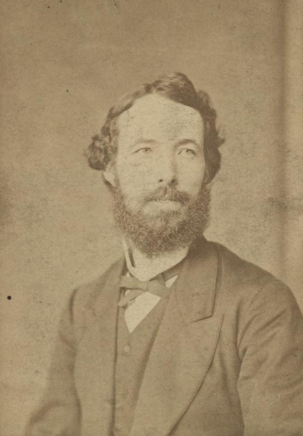 A portrait from the Welsh Portrait Collection at the National Library of Wales. Depicted person: Charles Davies – Welsh Baptist minister